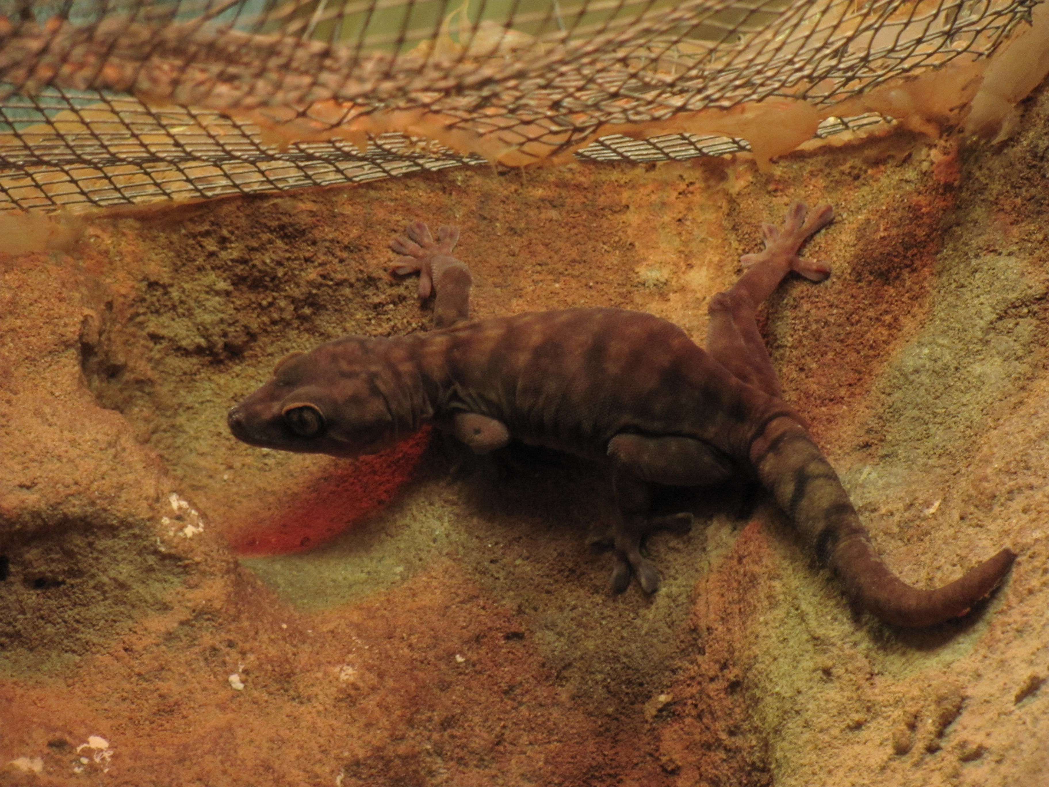 Giant Cave Gecko (Pseudothecadactylus lindneri). Taken at Taronga Zoo, located at Sydney NSW Australia.